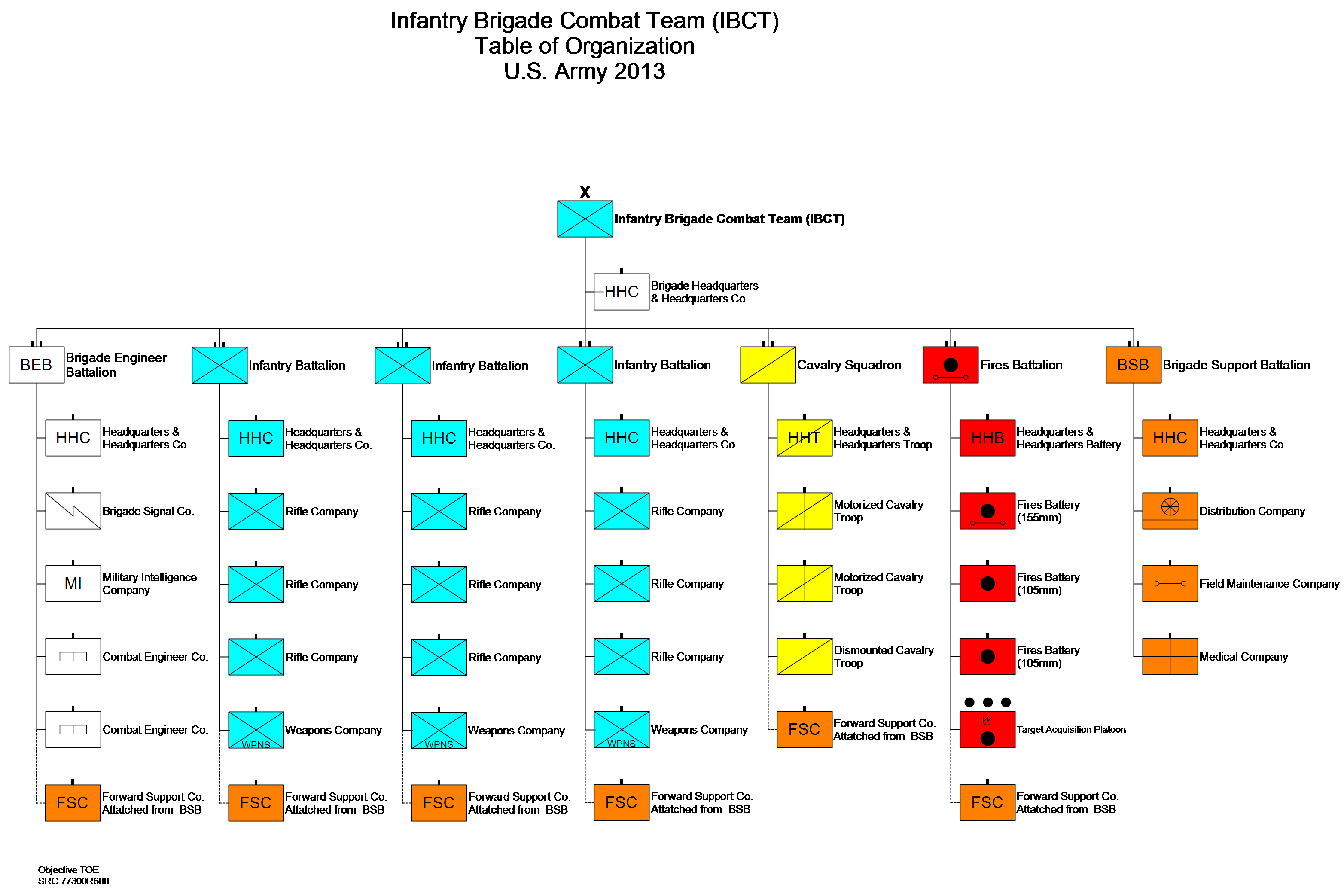 Infantry Brigade Combat Team Table of Organization. Reflects changes in U.S. Army MTOE made in 2009